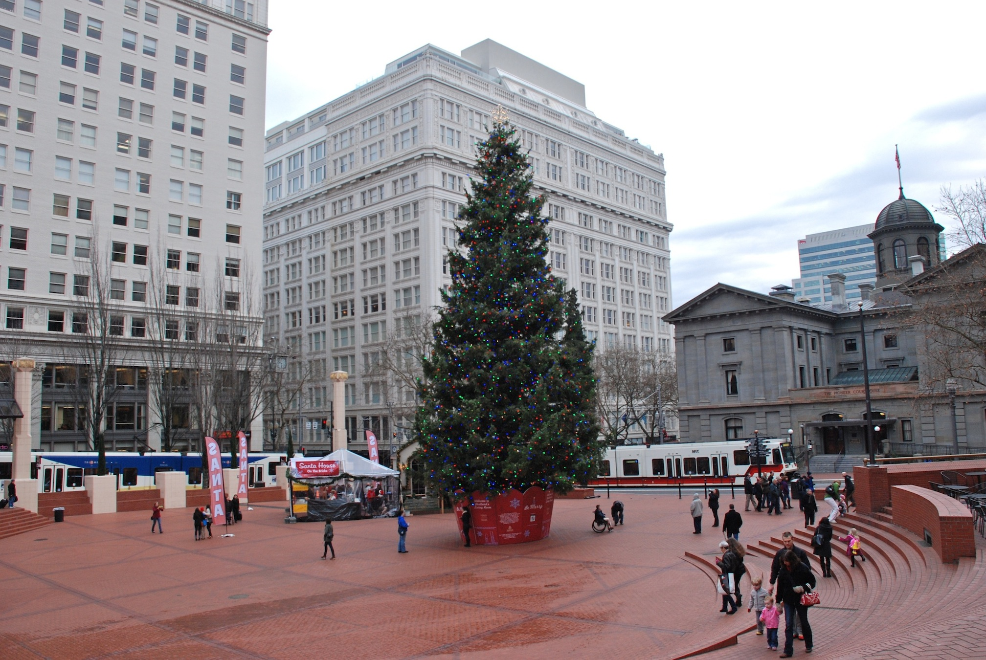 Portland, Oregon's Pioneer Courthouse Square in December 2011, with Christmas tree in the center of the plaza – an annual tradition – and Santa House. In the background, MAX light rail trains are stopped at, or pulling away from, stations on both Morrison Street and 6th Avenue. The building in the center background is the historic Meier & Frank Building, now occupied by Macy's (since 2006) and "The Nines" hotel (since 2008), and at right is the Pioneer Courthouse.